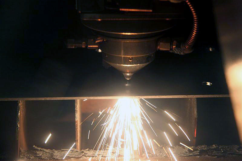 This is the laserhead of an AMADA FO-4020NT industrial laser installed at Metaveld BV